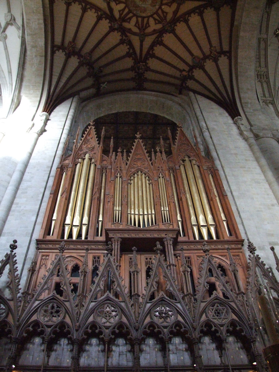 Winchester Cathedral, Winchester, England